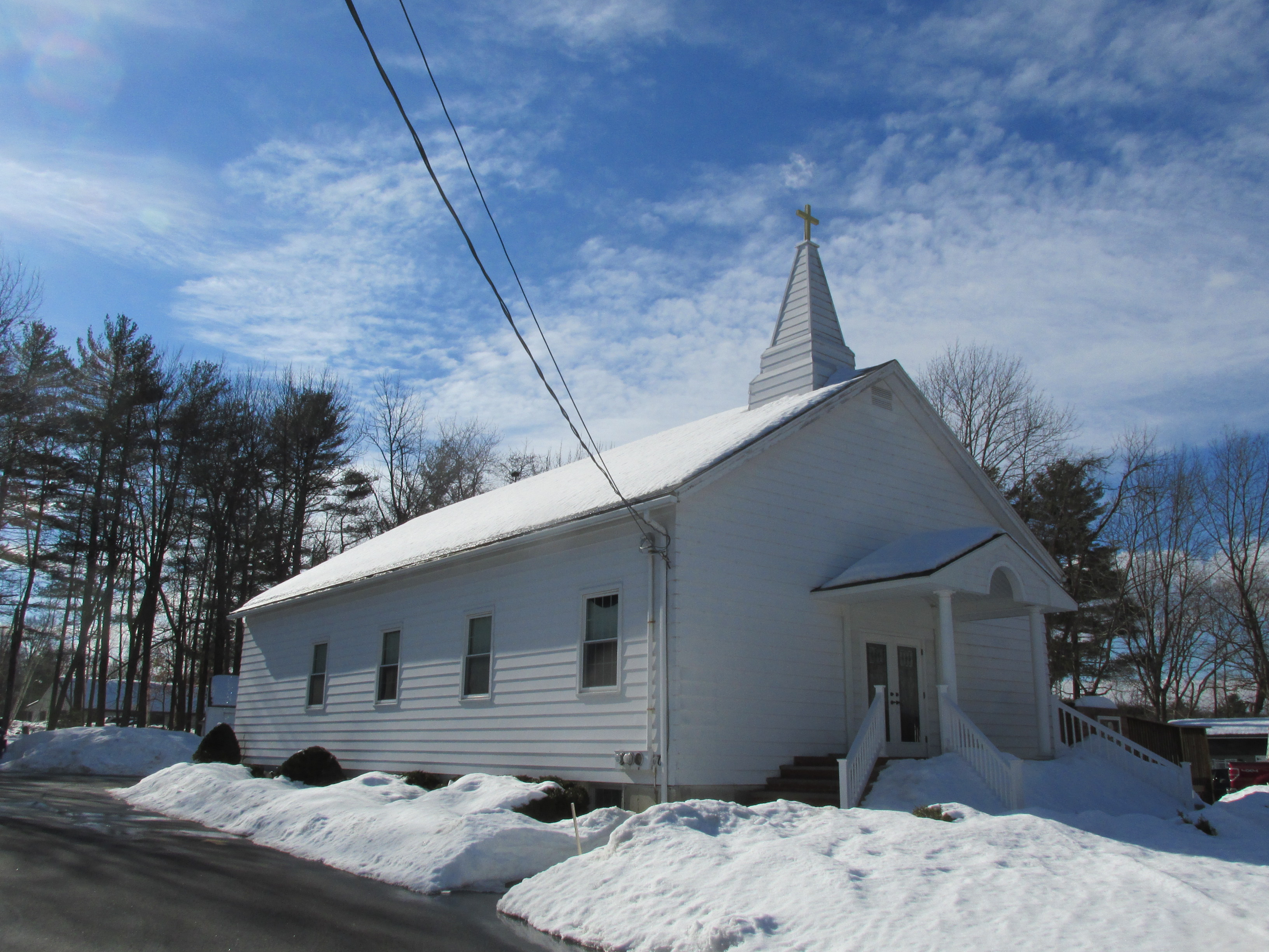 Grace Chapel Church of the Nazarene, South Hooksett New Hampshire - 2014